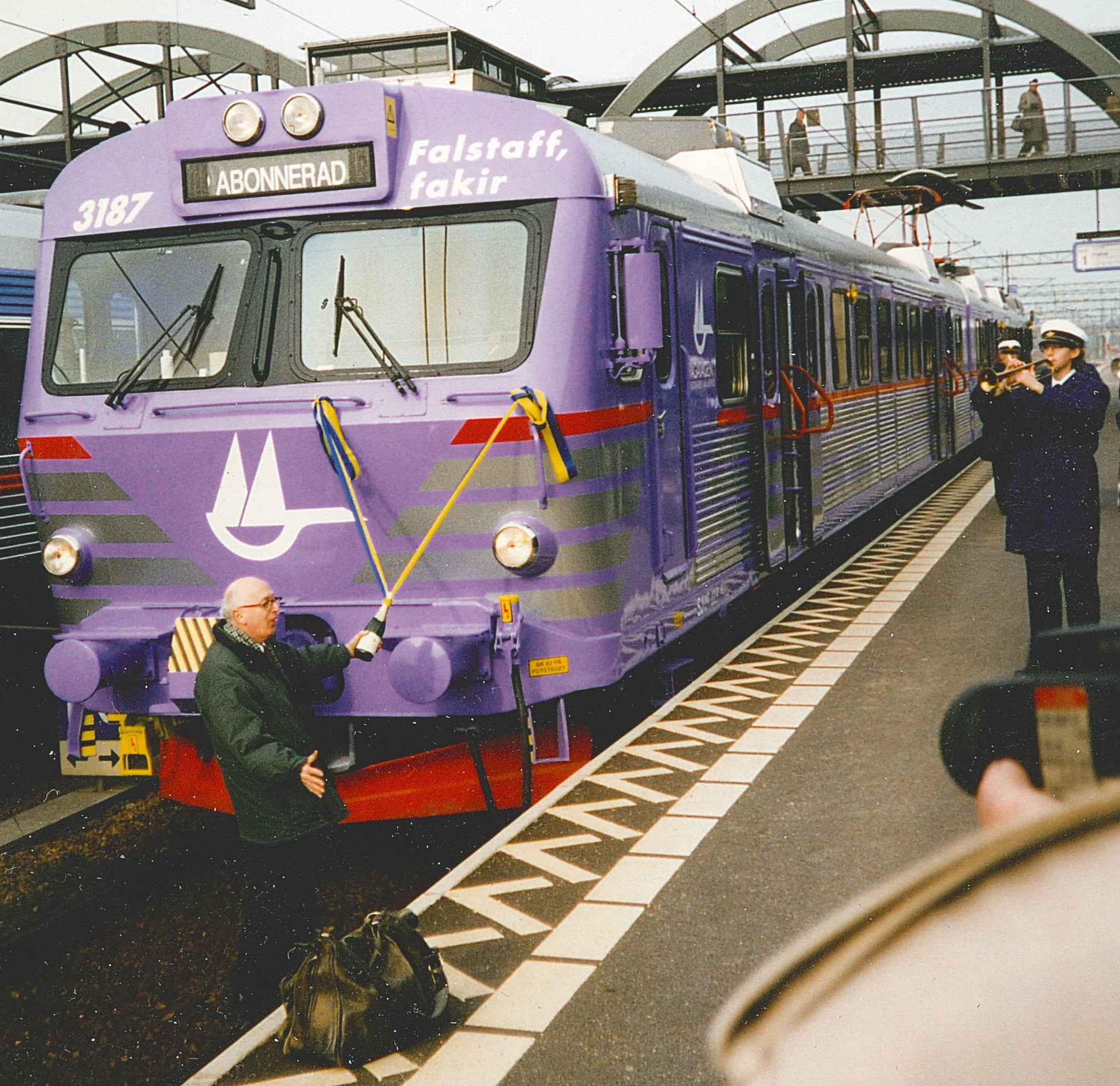 Bertil Romberg (1925-2005), Swedish historian of literature, teacher at Lund University and chairman of Fakirensällskapet; seen here performing the official inauguration of the local commuter train ("pågatåg") Falstaff, fakir, named after the pseudonym used by author and humorist Axel Wallengren (1865-1896).